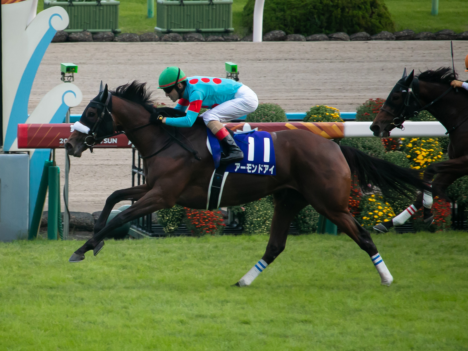 Almond Eye(JPN), Racehorse of Japan.